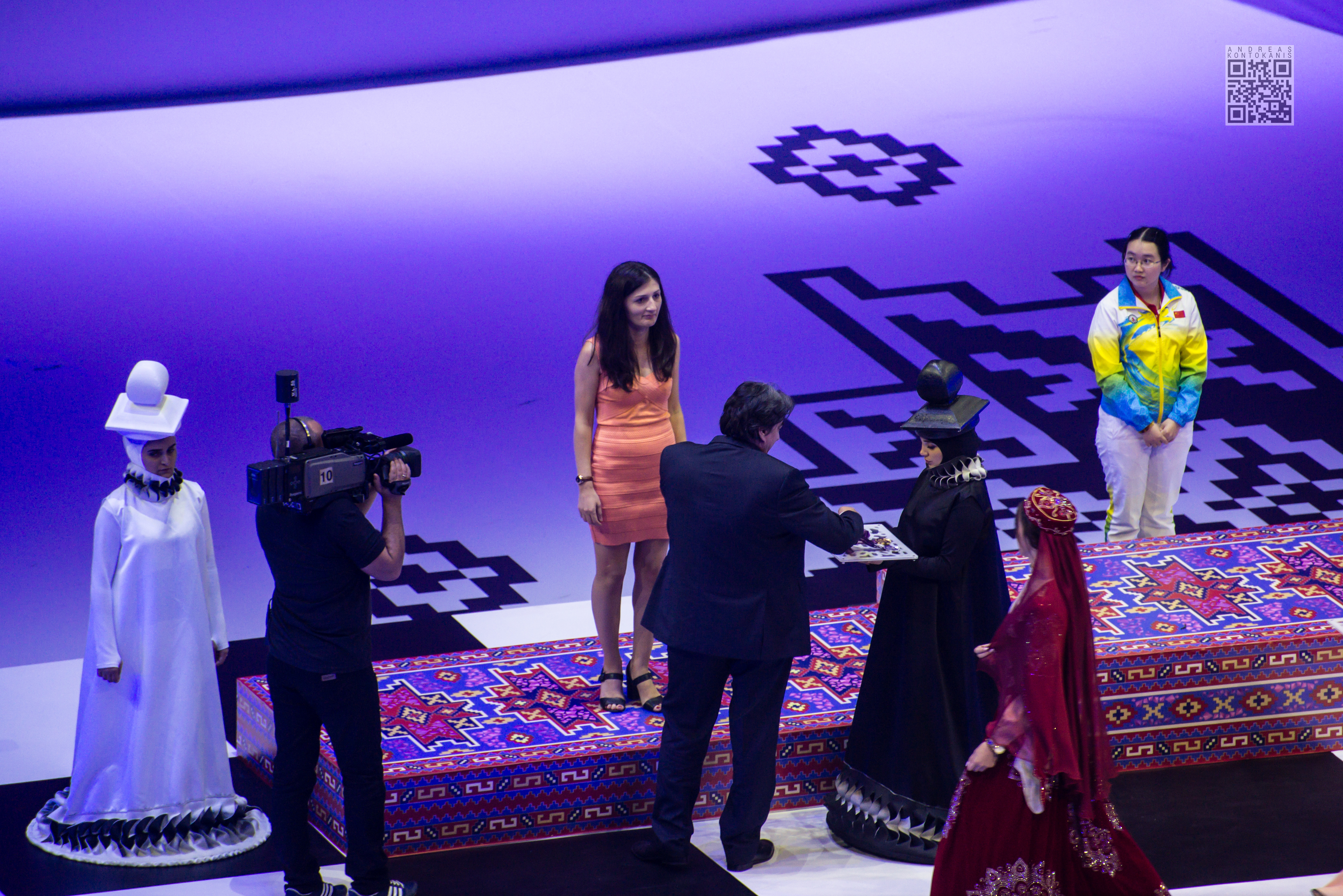 Batsiashvili Nino receives her medal